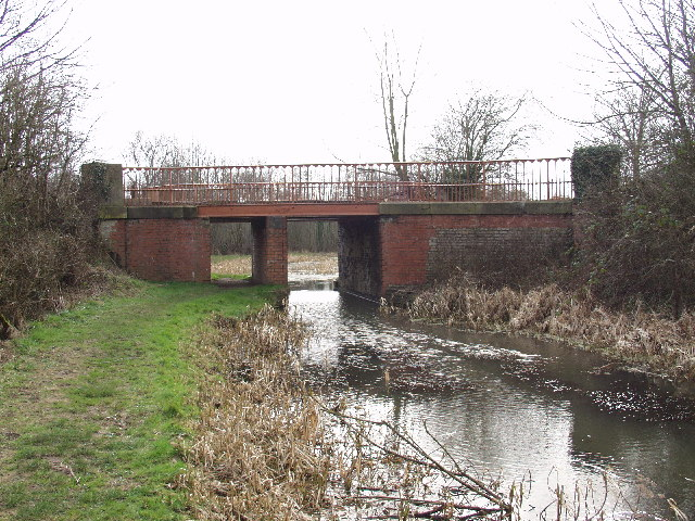 Montgomery Canal at Aber-miwl. This fine old bridge, made at the Brymbo Ironworks near Wrecsam, in 1853 used to carry the Newton to Welshpool road.In recent years this has taken a new route. There is also a fine cast iron bridge over the Severn but this is difficult to photograph.